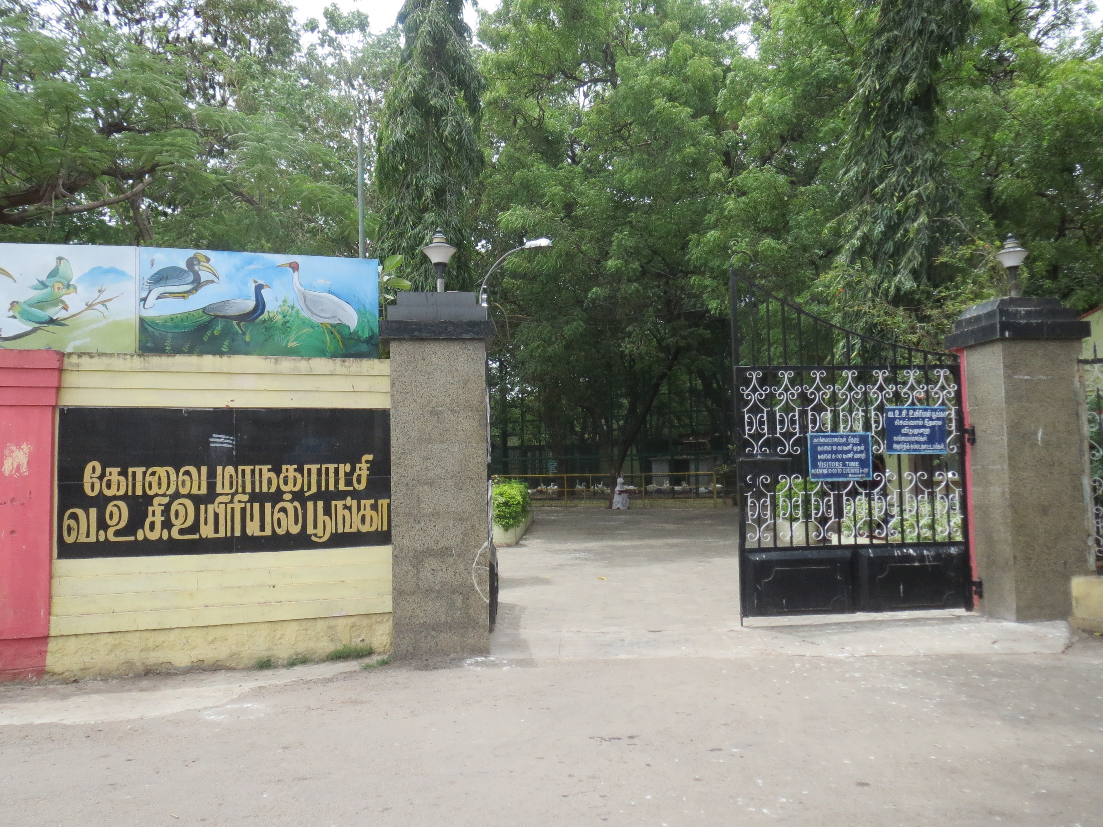 Front View of Voc Zoo, Coimbatore.